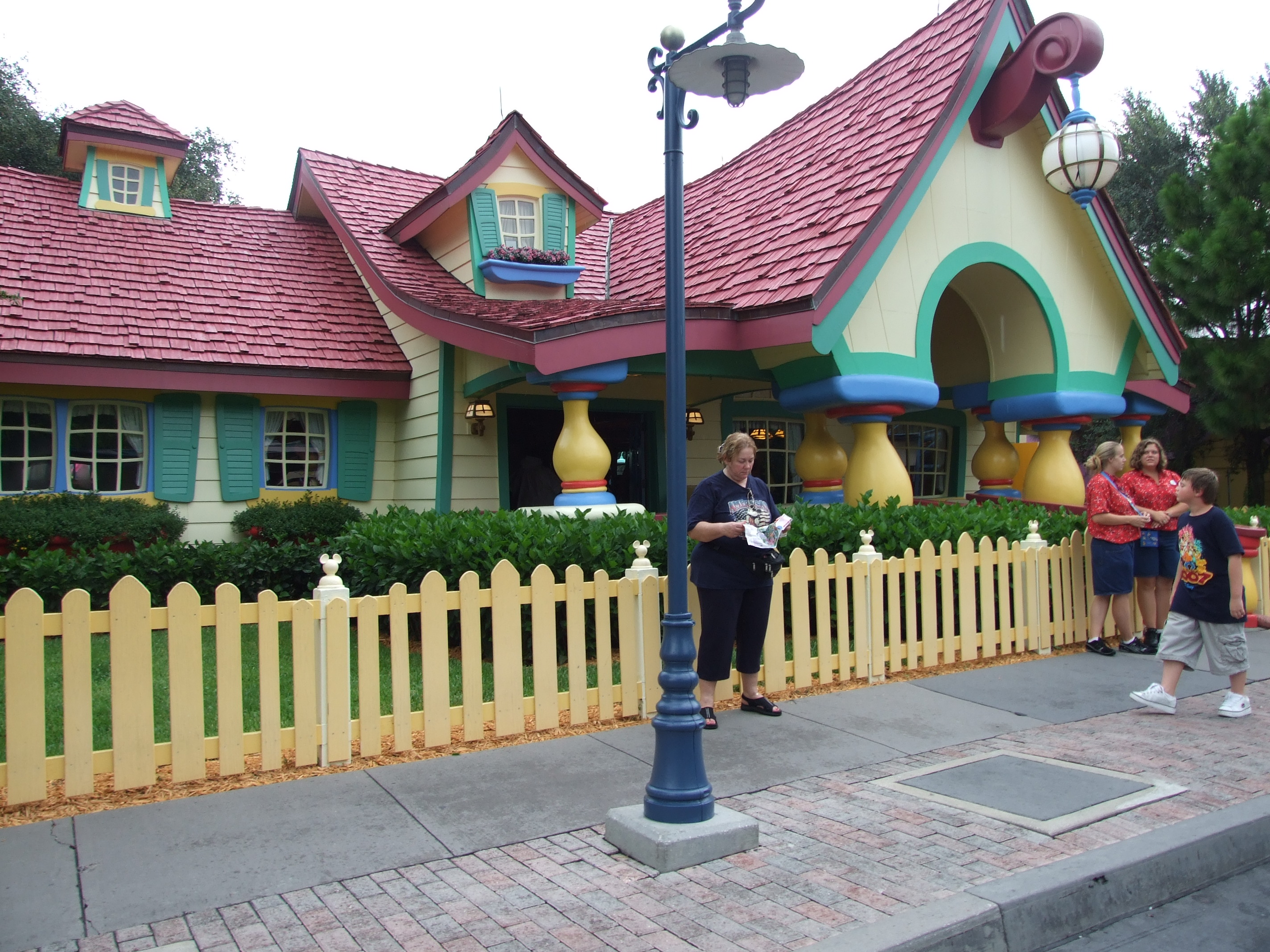 Mickey's Country House at Mickey's Toontown Fair, Magic Kingdom.